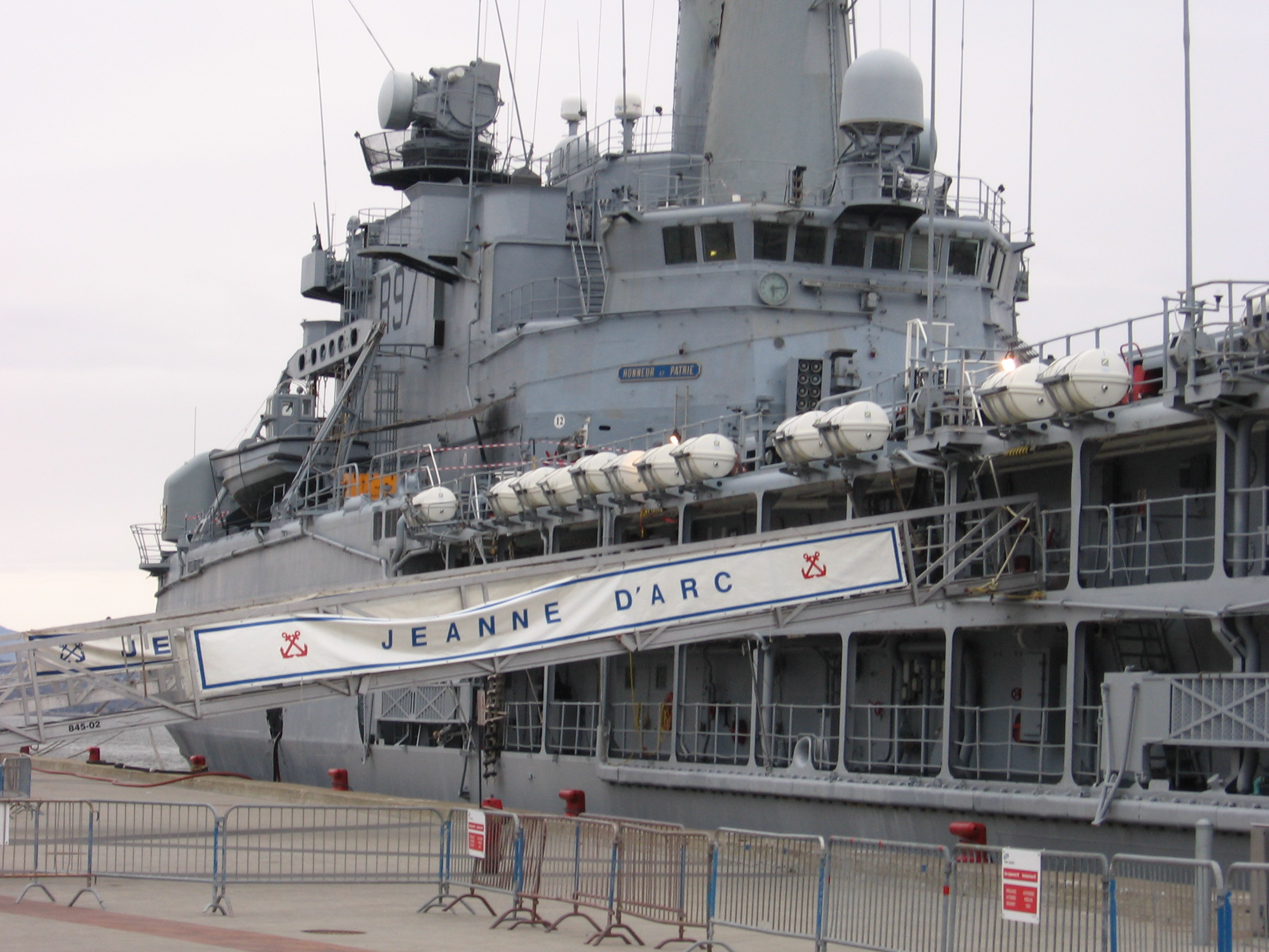 Jeanne d'Arc cruiser